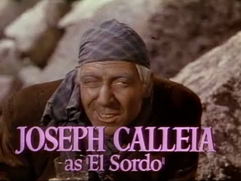 Actor Joseph Calleia in For Whom the Bell Tolls - trailer (screenshot)